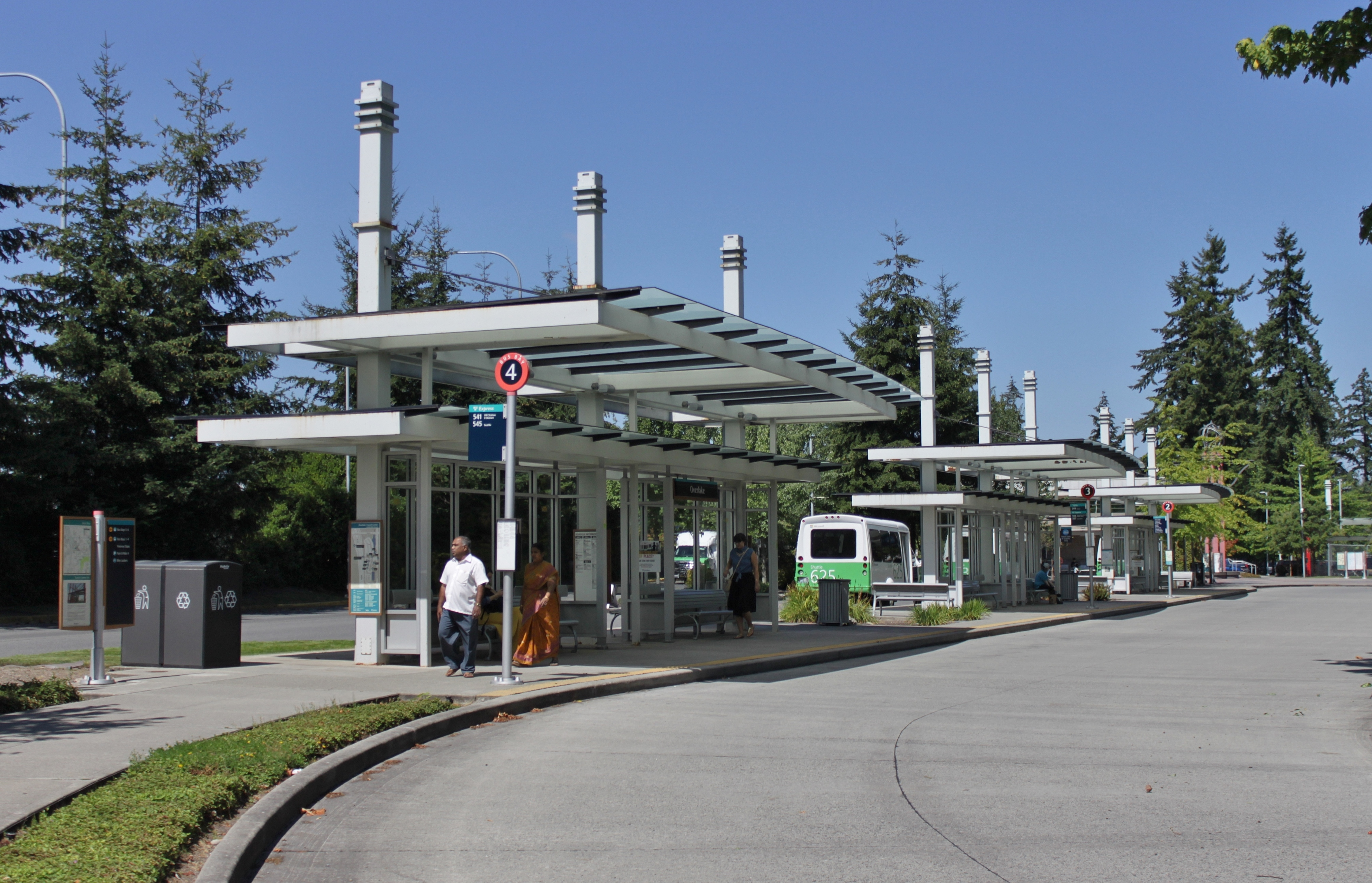 The bus bays at Overlake Transit Center, a bus station in Redmond, Washington, near the Microsoft headquarters. In 2023, it will become the terminus of the Eastern line of Link light rail, at which point new bus bays will be built.